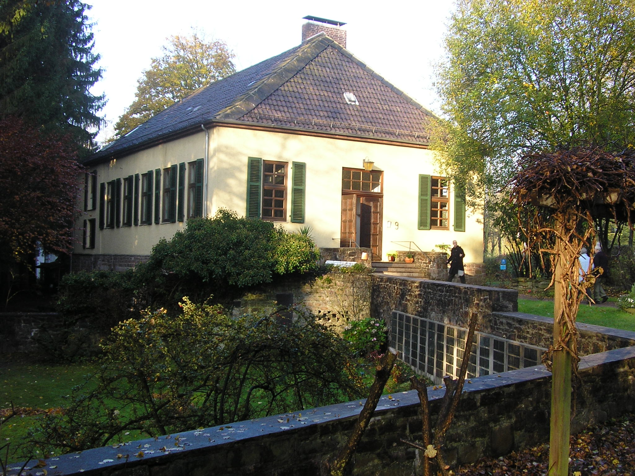 Quaker meeting house in Bad Pyrmont, Lower Saxony, Germany